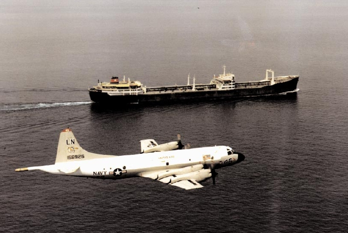 A U.S. Navy Lockheed P-3C-145-LO Orion (BuNo 158926) from Patrol Squadron VP-45 in flight over a Soviet freighter.